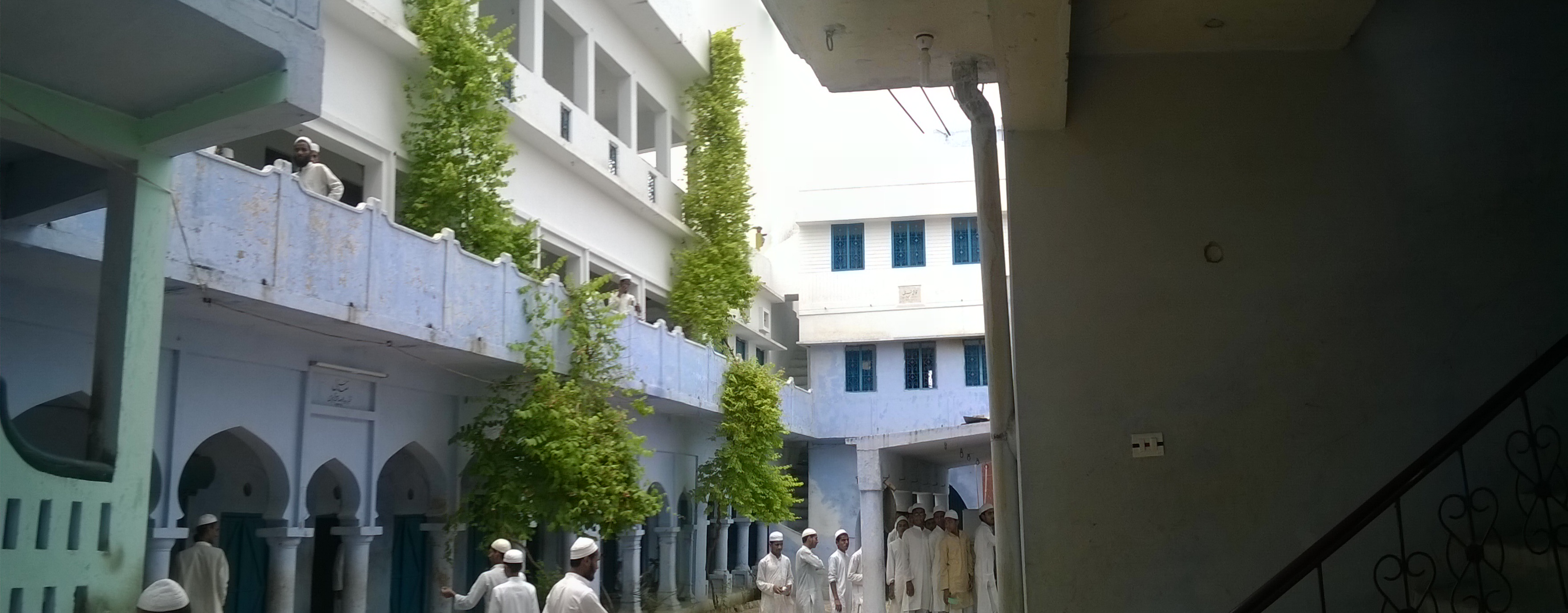 Noorul Uloom Bahraich's main building 's panoramic view